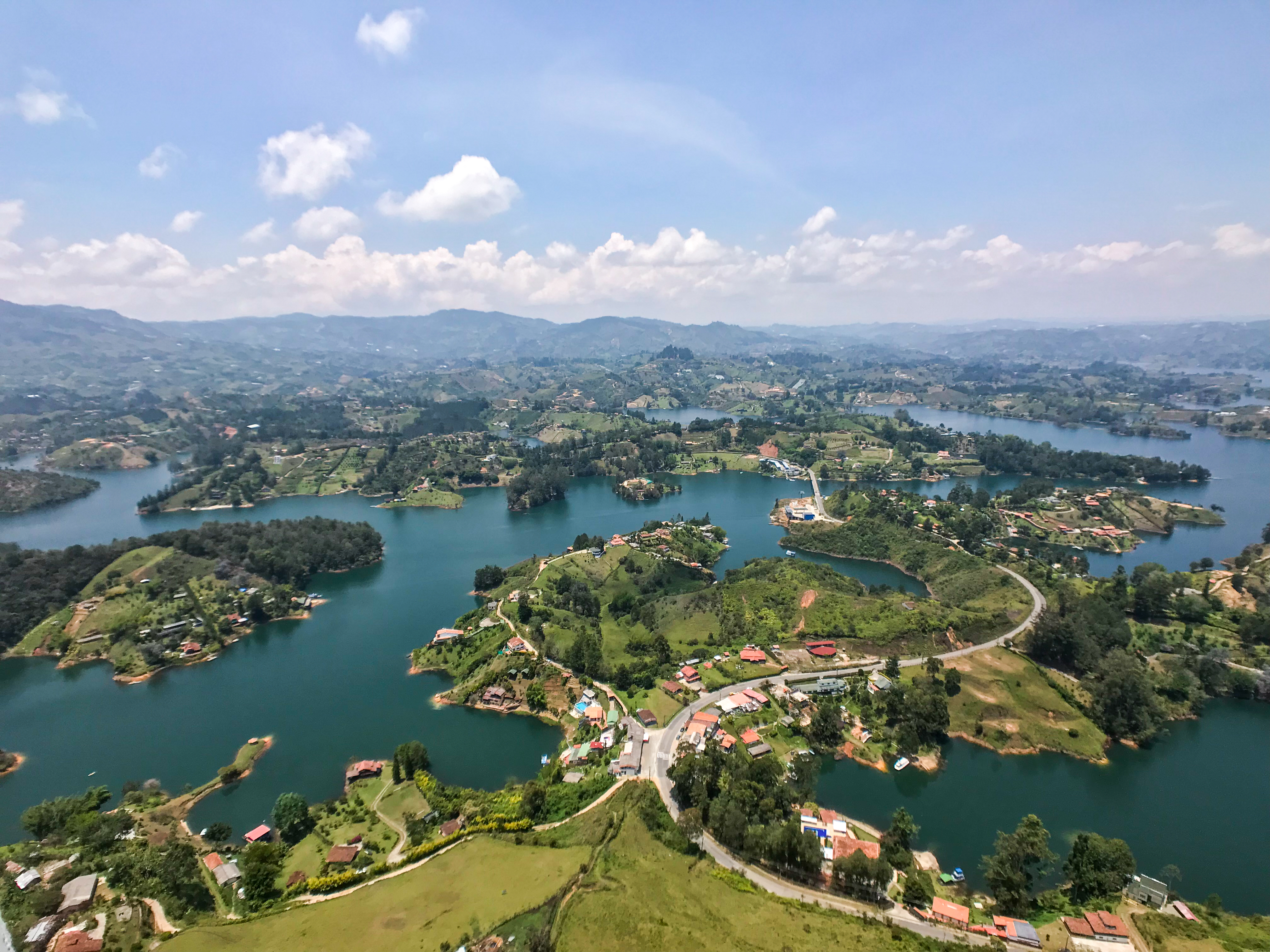 View of the Colombian town of Guatapé from El Peñón.